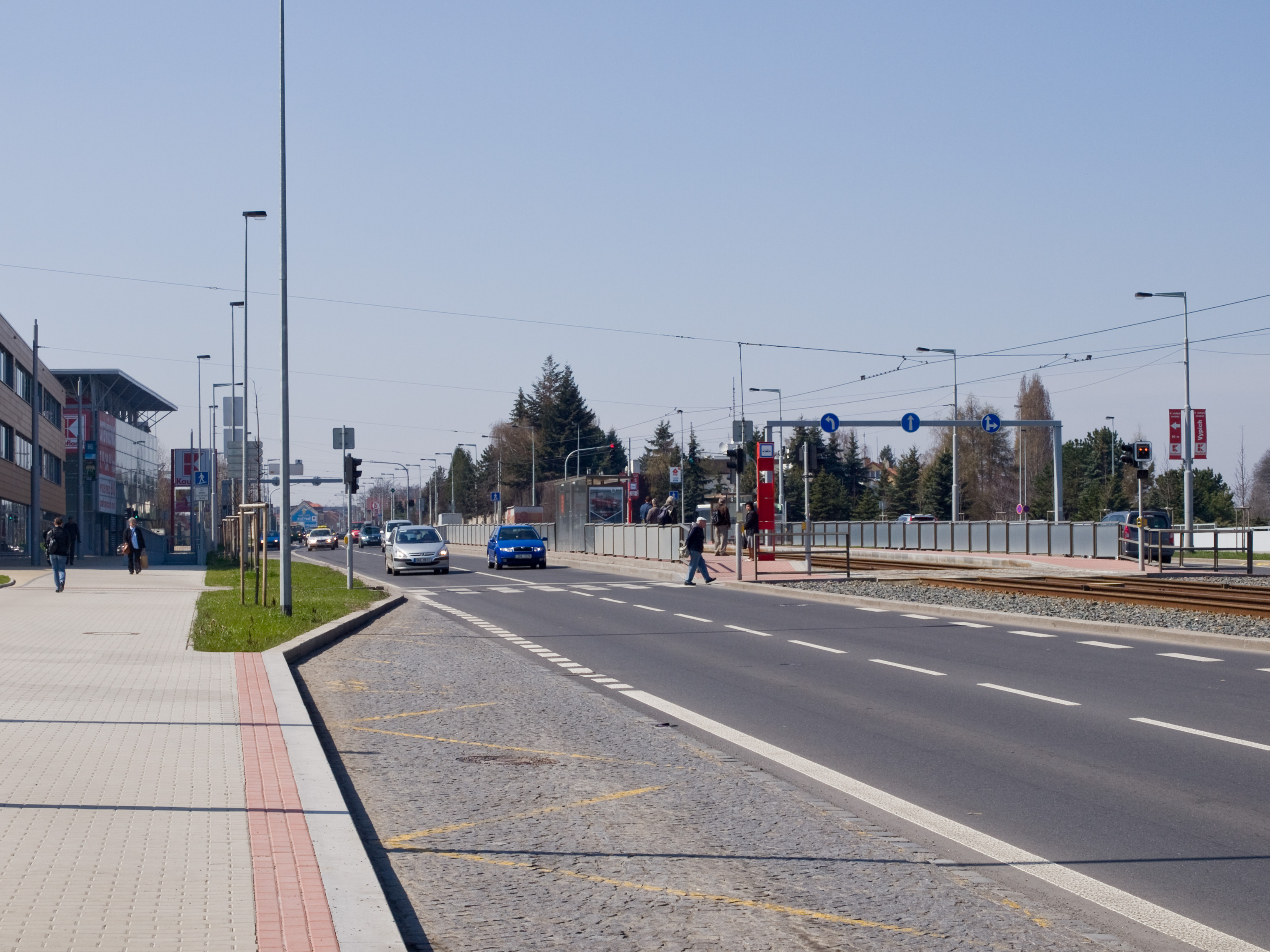 Bělohorská street near Obora Hvězda bus stop, Vypich, Prague 6